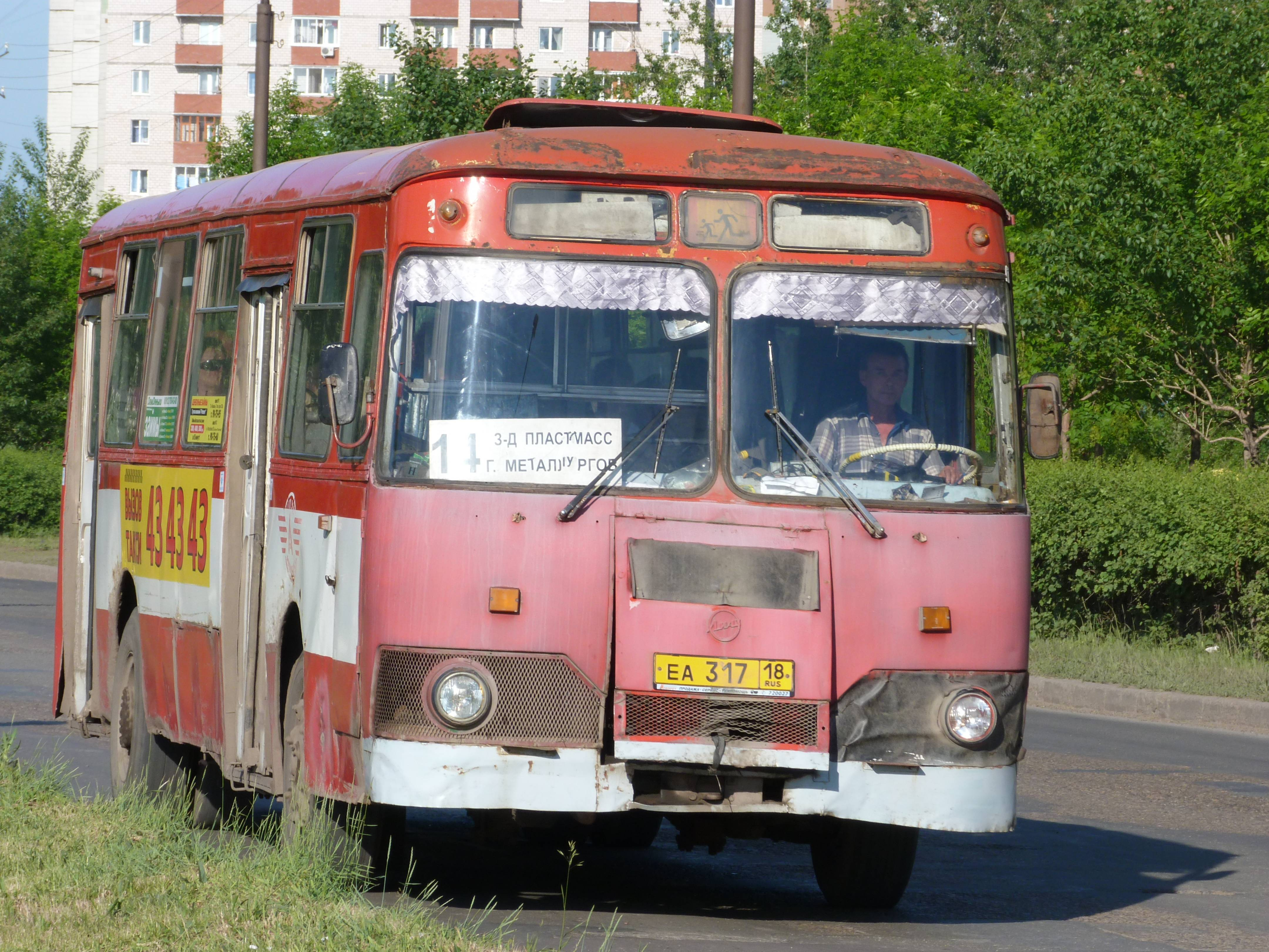 Bus in Izhevsk on the route 14